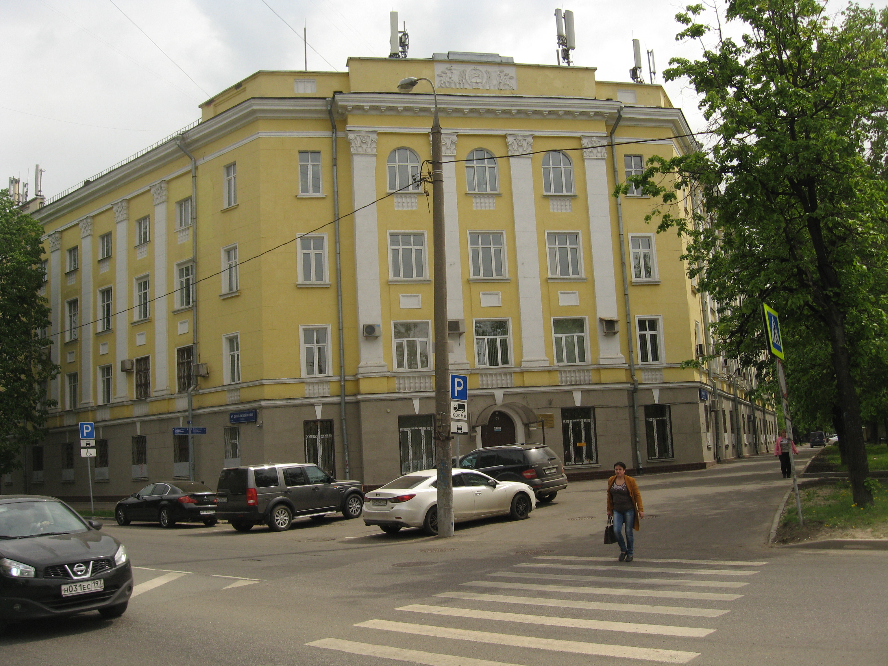 Research Institute of Occupational Health and Diseases (AMS). Moscow, Prospekt Budennogo 31.